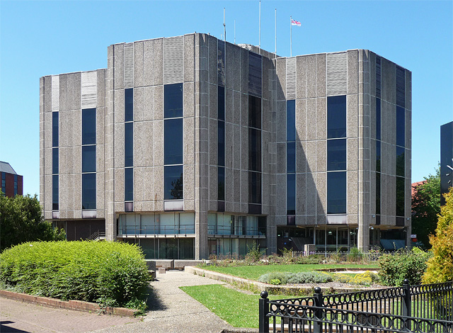 The theme here is the hexagon. The plan of the building is six hexagons clustered together in the shape of a hexagon, a further one inside, and one projecting hexagon at the entrance. That makes eight in total, which spoils the six-ness somewhat. The hexagons are of different heights. They are clad in aggregate with narrow, tinted vertical windows. Built as part of a comprehensive civic redevelopment in 1971-76 to the designs of R. Matthew, Johnson-Marshall & Partners. It is still the HQ of Reading Council.